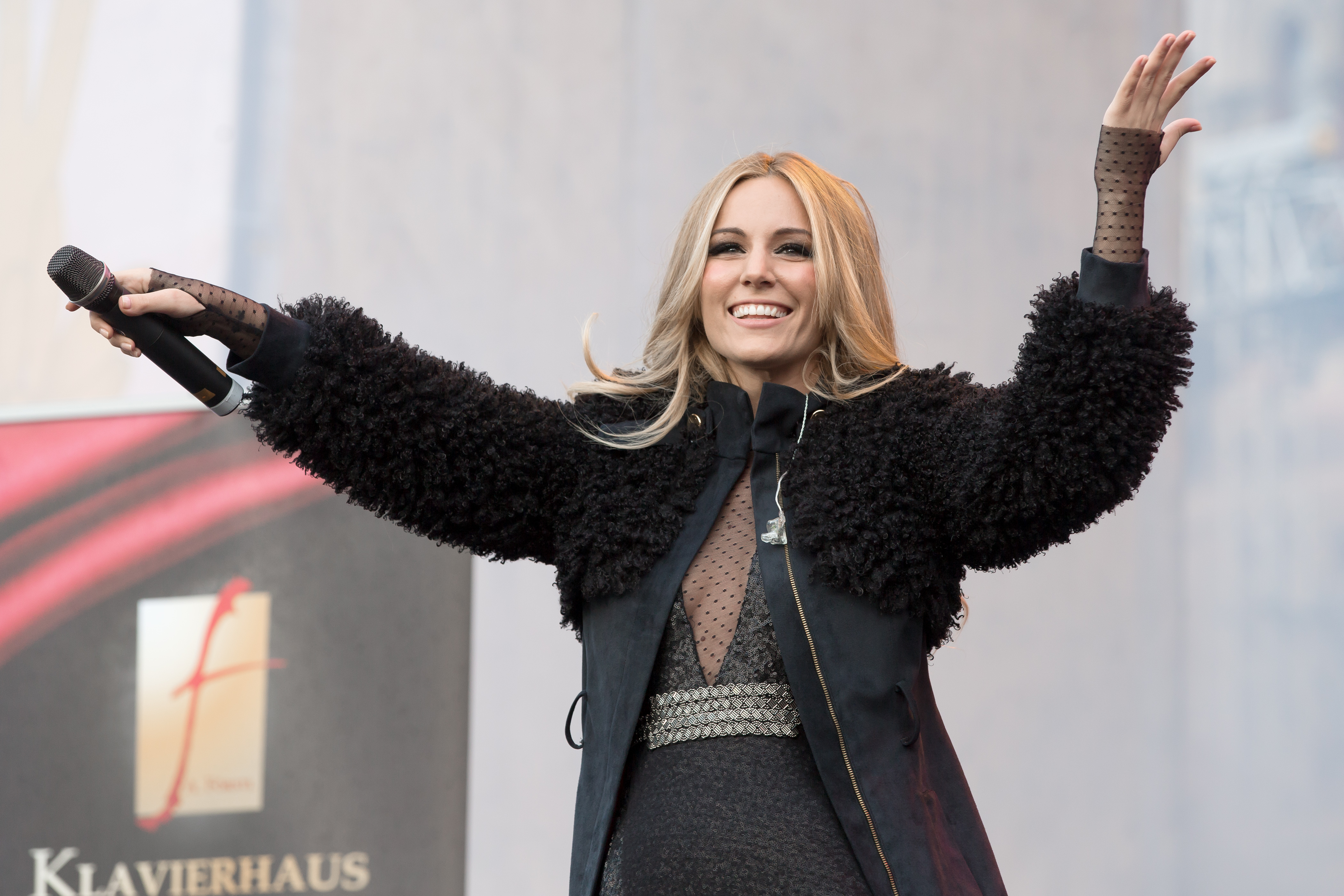 Edurne, Spains participant at the Eurovision Song Contest 2015, concert at Eurovision Village on Rathausplatz in Vienna, Austria.